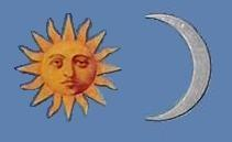 Coat of Arm of Székely Land